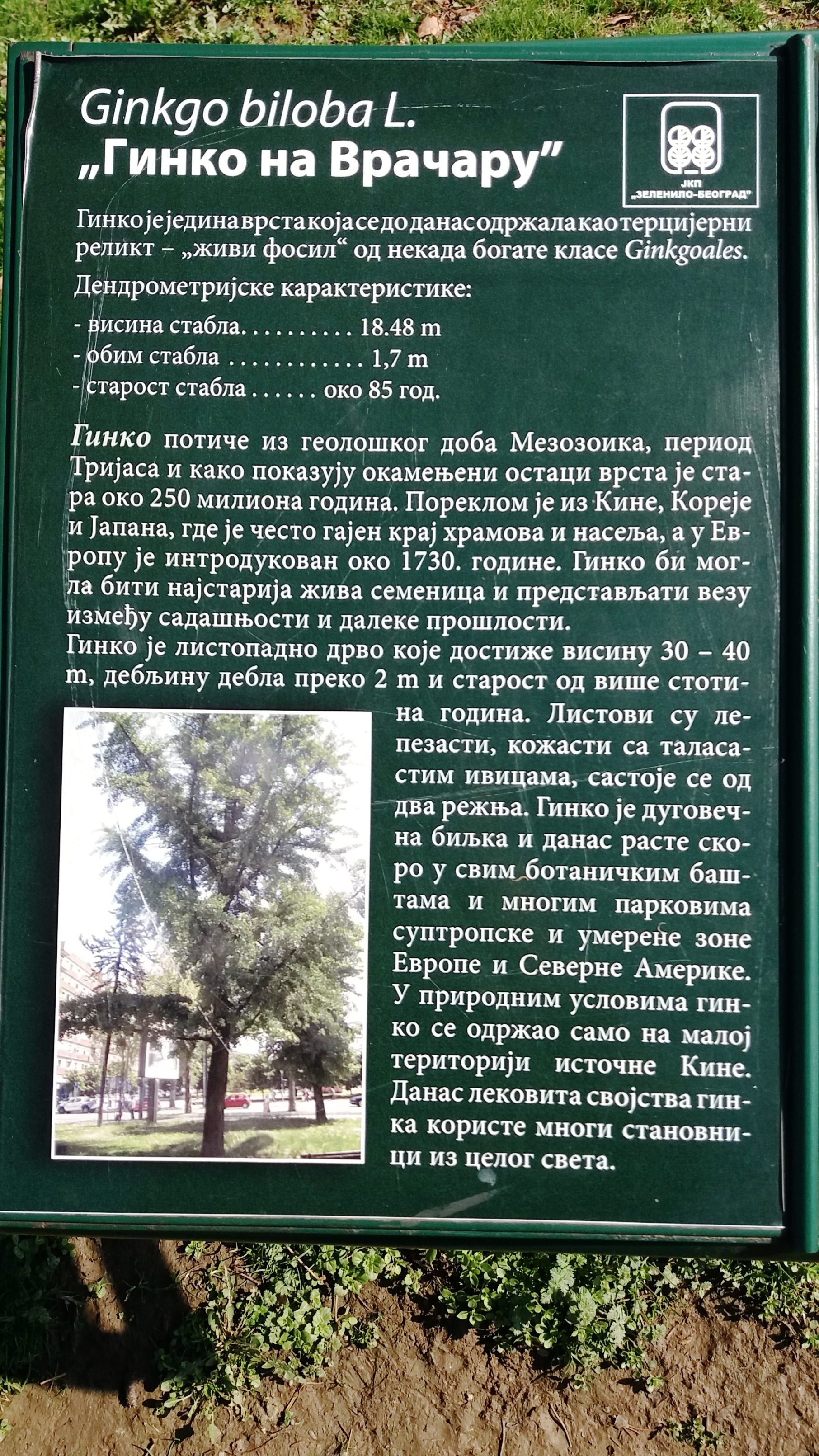 Ginkgo tree in Belgrade municipality Vračar